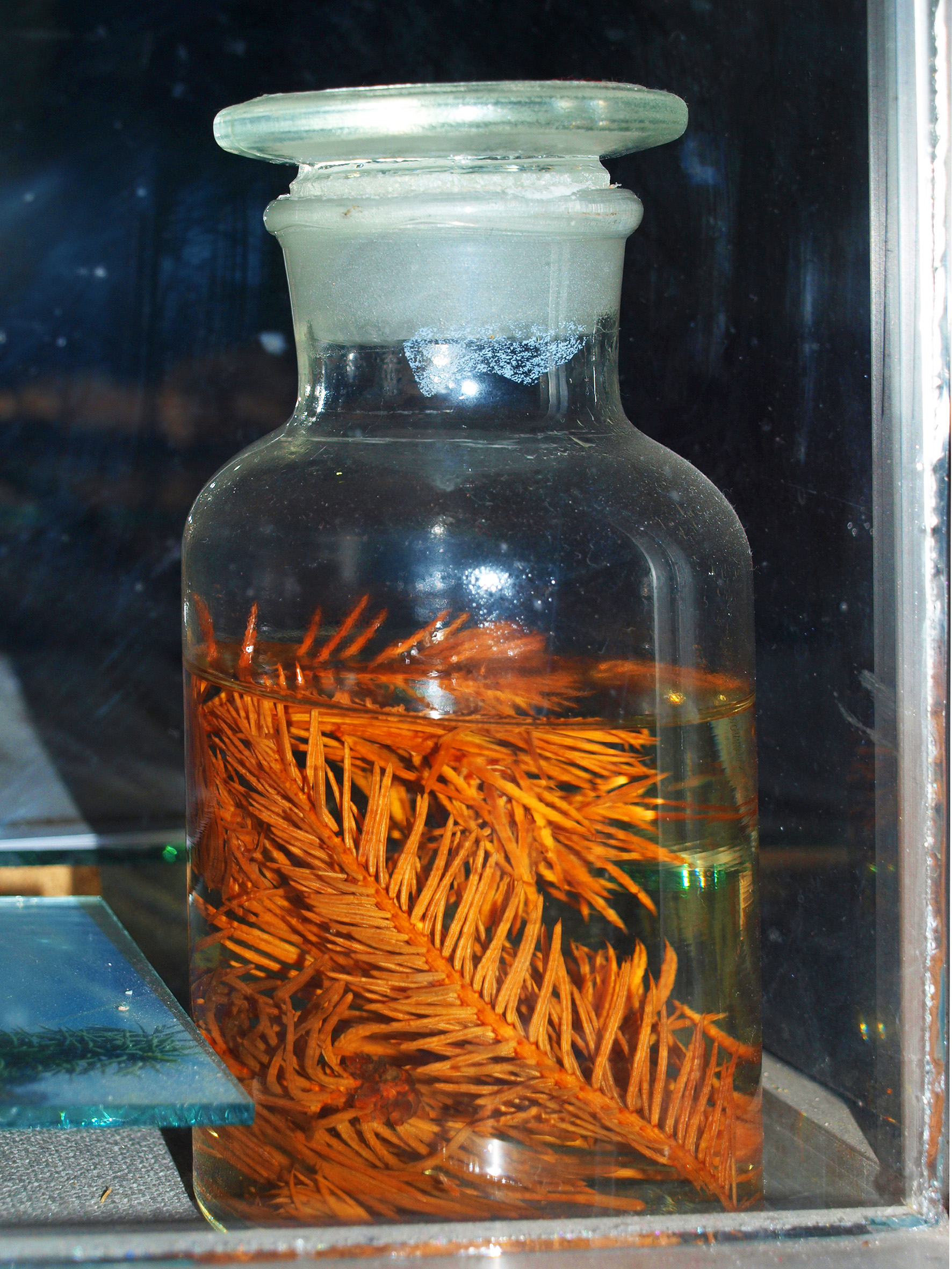 Morphogenetic changes in a common spruce. Dose load 200 Кi / км2. Manifestation of gigantism, pathological growth and development of needles. National Museum "Chernobyl"